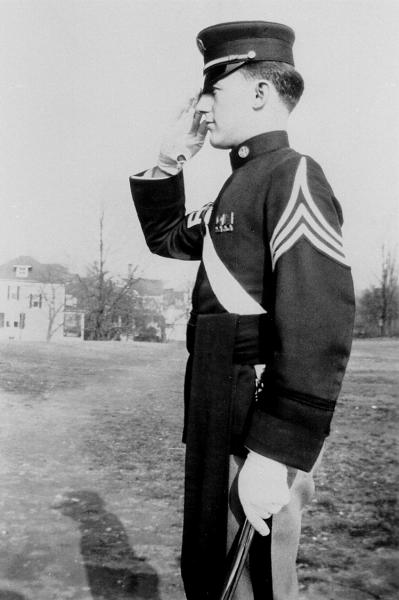 This image depicts a member of the Virginia Tech Corps of Cadets Source This image is from Imagebase, a library of images maintained by Virginia Tech's Digital Library and Archives. The exact URL of this image is Category:Virginia Polytechnic Institute and State University